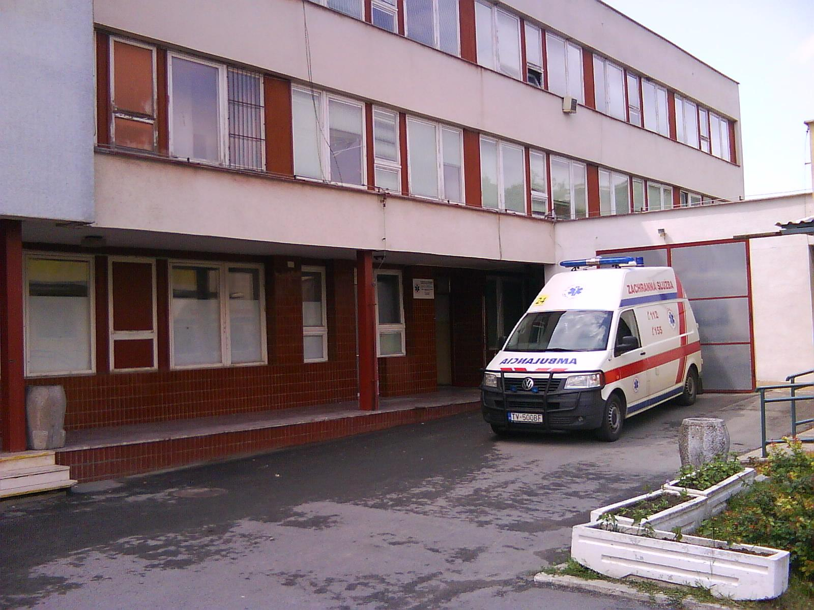 Urban policlinic with Station emergency medical services (Resustic Zemplín) in Sečovce.